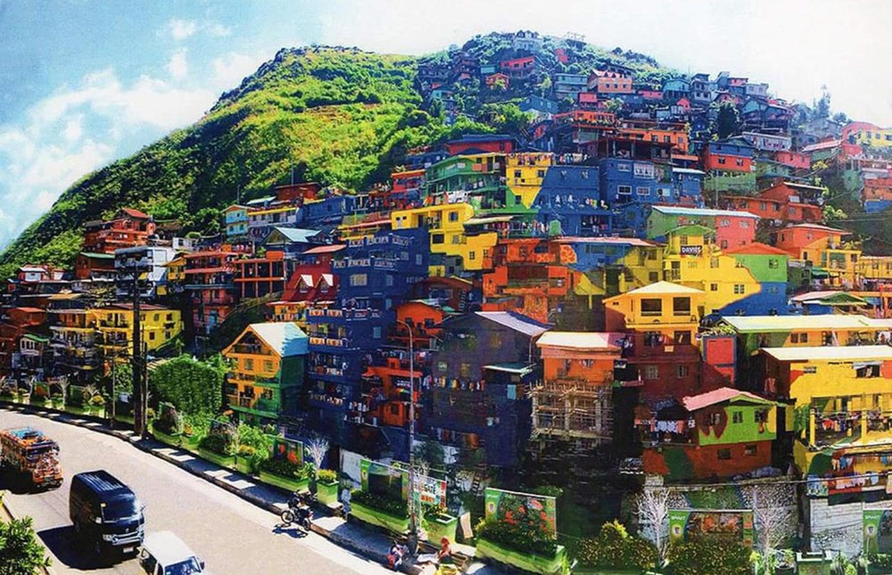 StoBoSa Hillside Homes Artwork in La Trinidad, Benguet, a town near Baguio City.